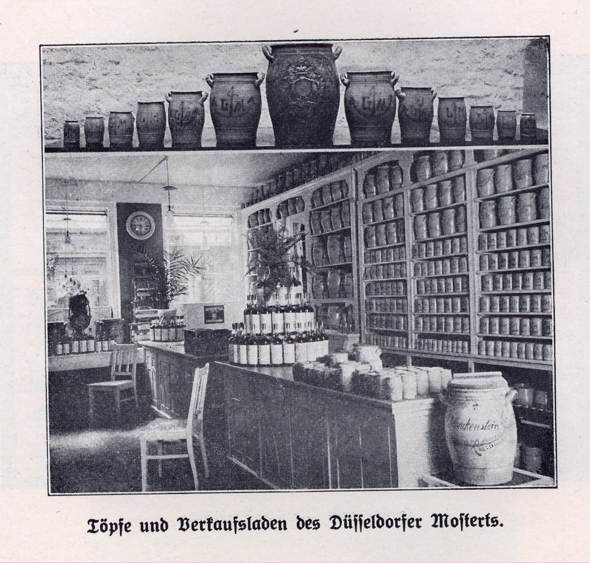 t